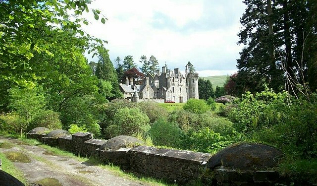 Dunans Castle, Glendaruel, from bridge Taken a few months after it was destroyed by fire